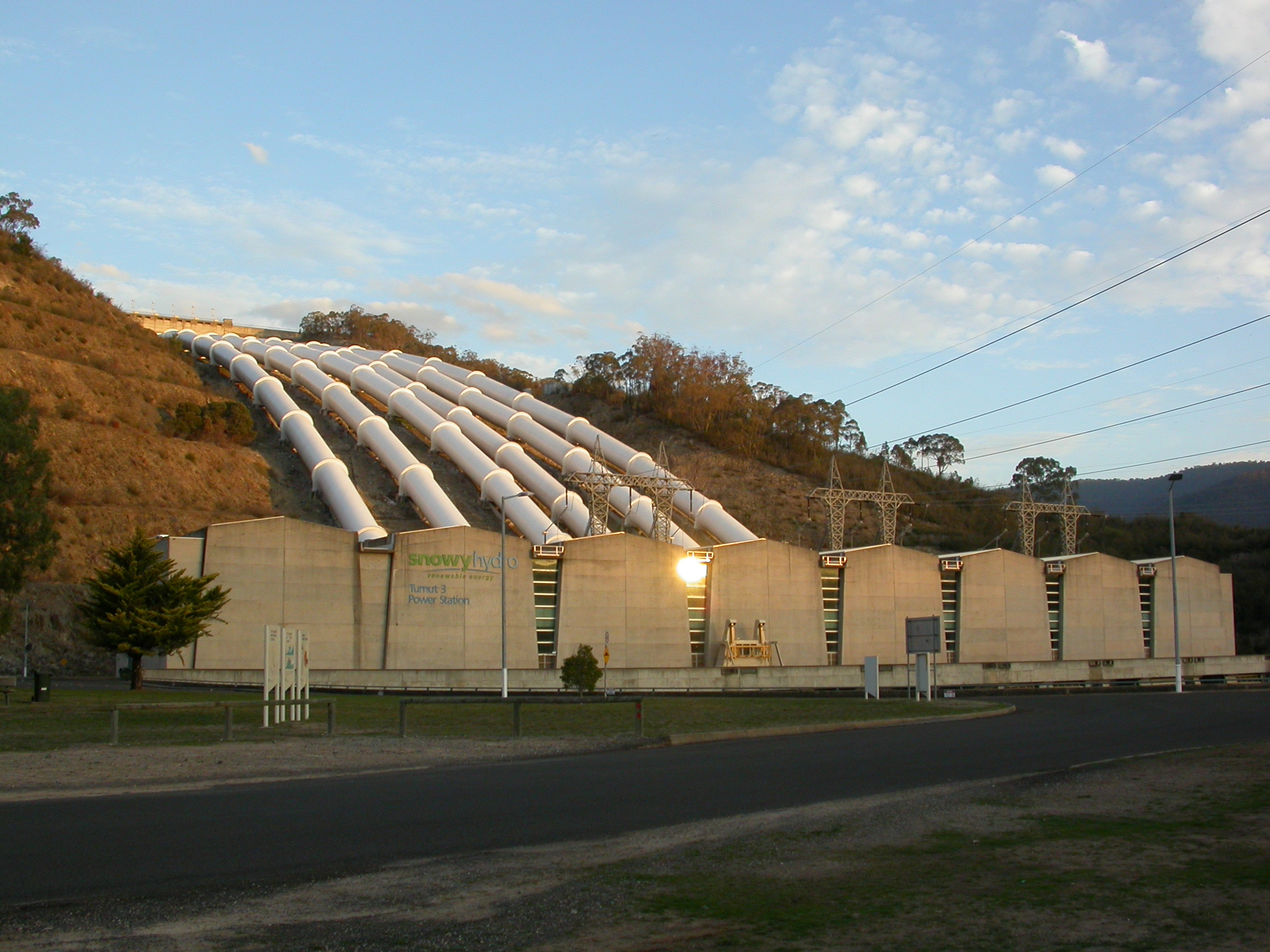 Image by Colin Henein.